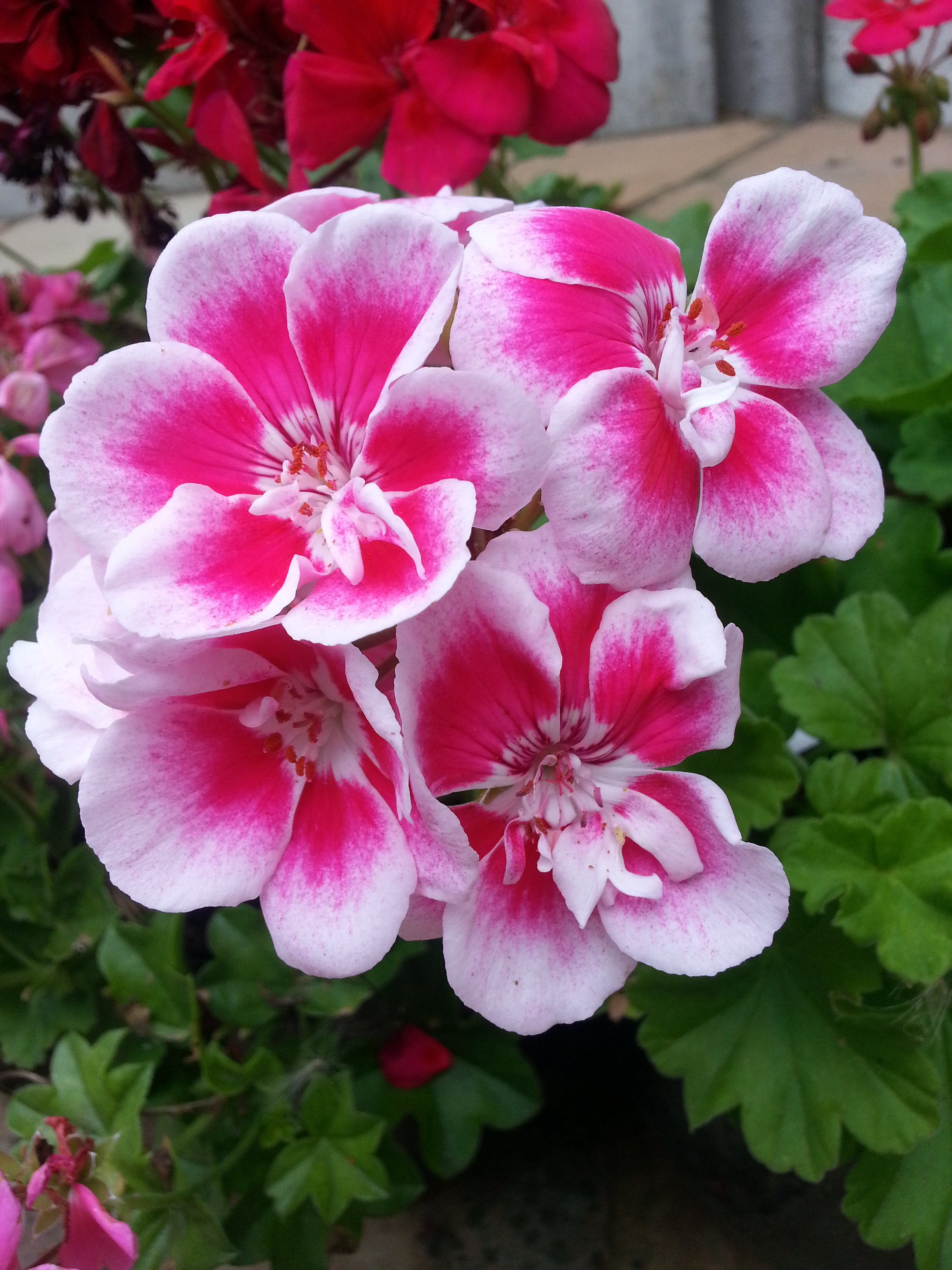 Picture of a Geranium Zonal Emilia plant (Pelargonium x hortorum)